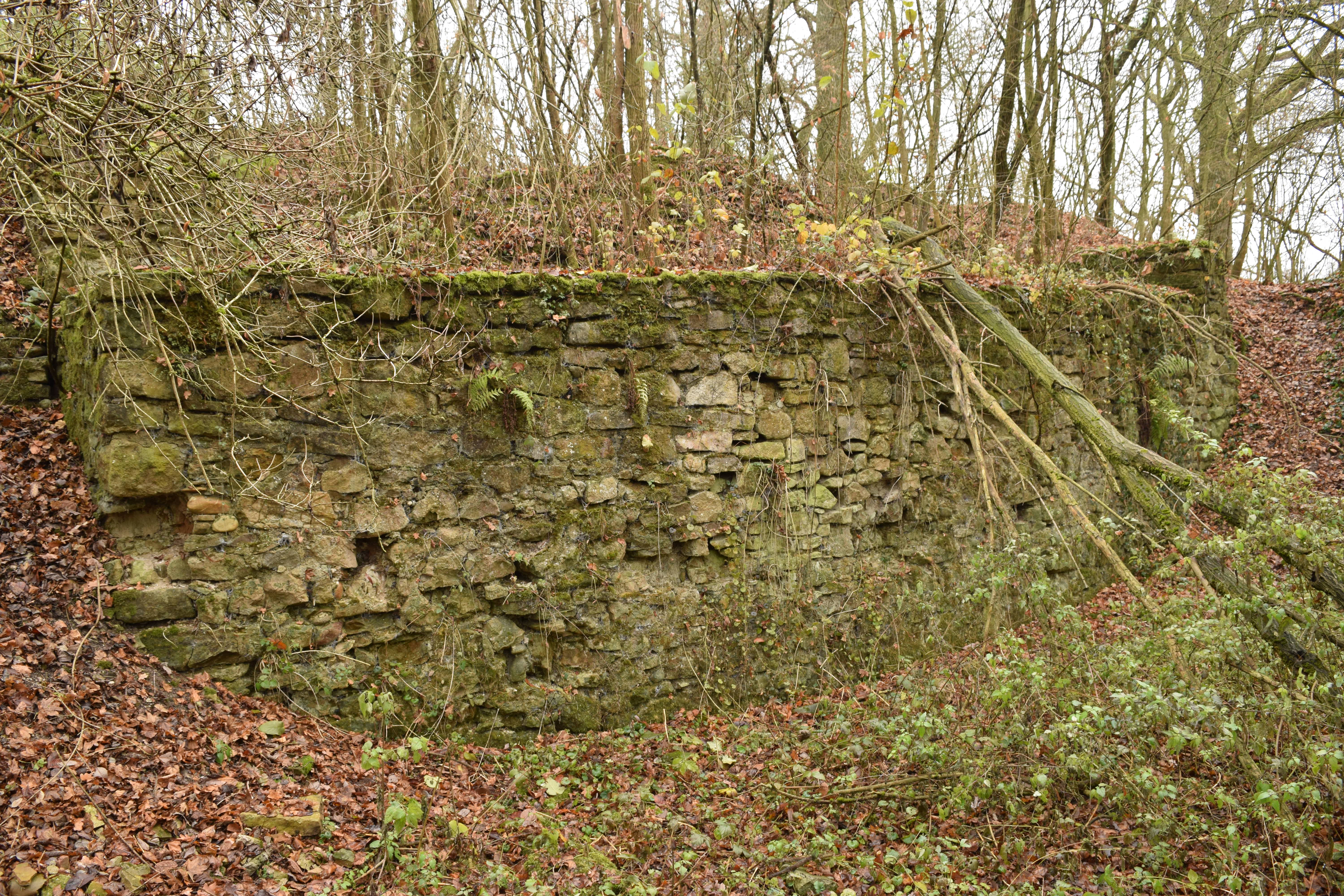 Ruins of Château de Butenheim / Butenheim Castle near Petit-Landau, Alsace, France